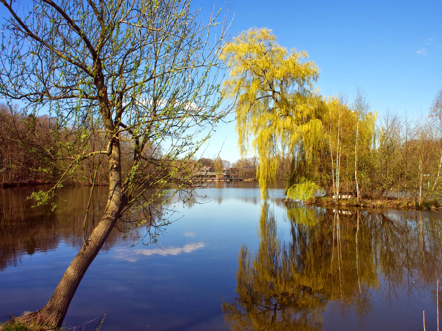 Isenhagener See in 29386 Hankensbüttel, Germany, view from the south bank